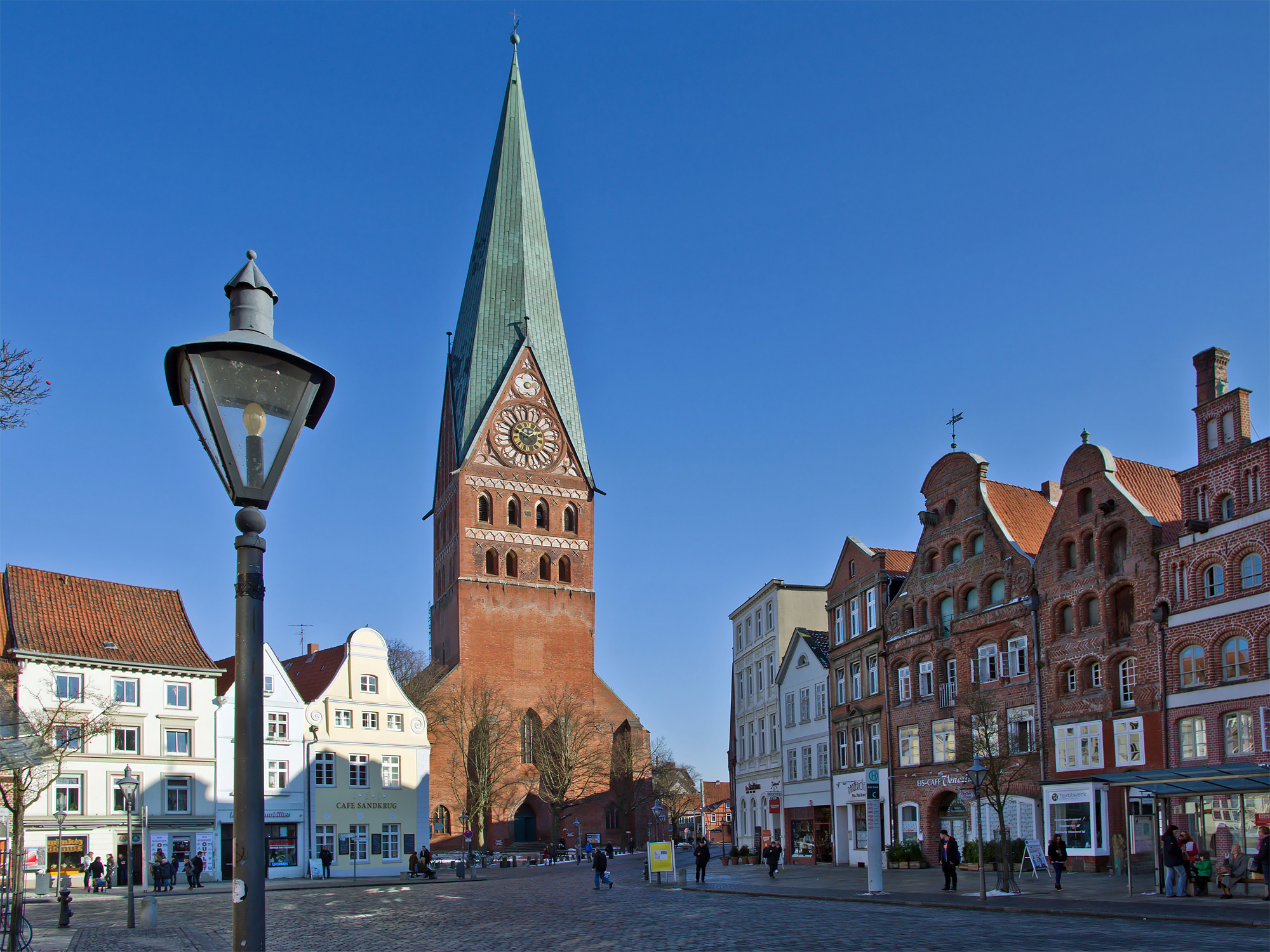 Church St. John in the town Lüneburg (north-eastern Lower Saxony, Germany).